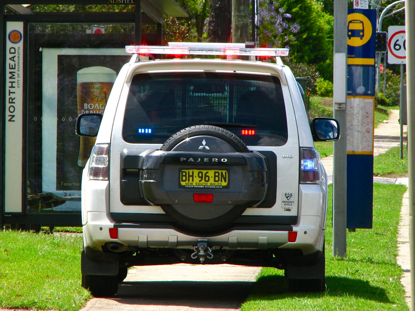 RTA Traffic Commander Pajero